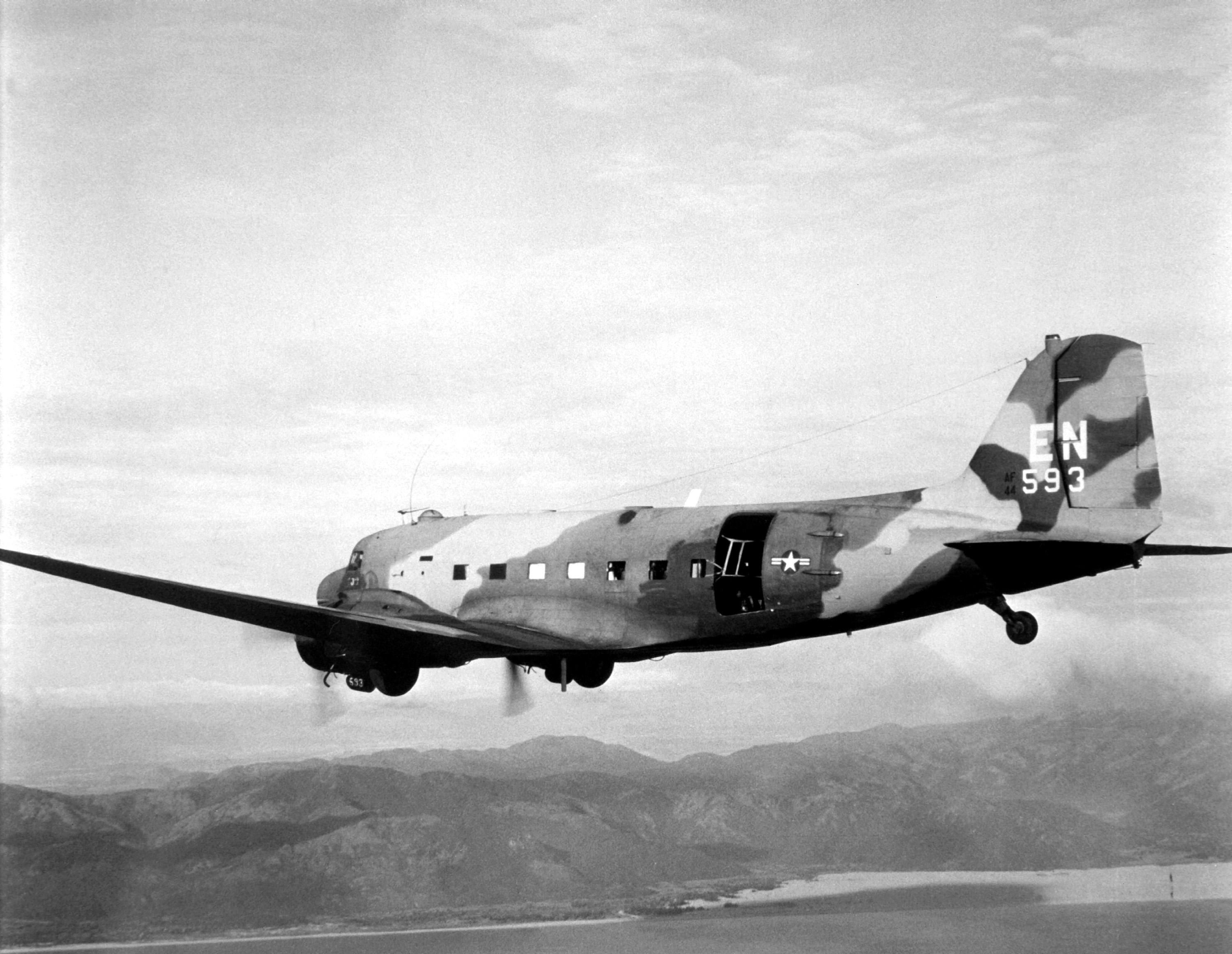 A U.S. Air Force Douglas AC-47D Spooky gunship (s/n 44-76593) of the 4th Special Operations Squadron, 14th Special Operations Wing, flying out of Nha Trang Air Base, South Vietnam, in 1968-69. This aircraft, 44-76593 (c/n 16177/32925), was originally delivered as a TC-47B-30-DK.